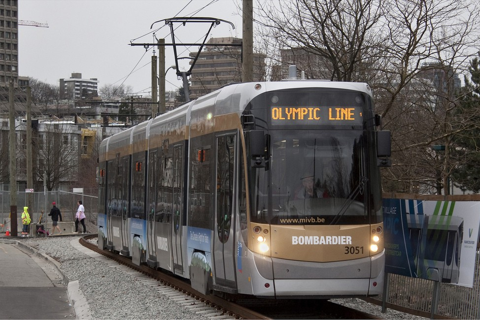 A Bombardier Flexity Outlook tram near Olympic Village Station in Vancouver, Canada. These trams, on loan from Brussels, ran between Olympic Village Station and Granville Island during the Olympic and Paralympic Games in 2010, as a demonstration for the Downtown Streetcar Project.